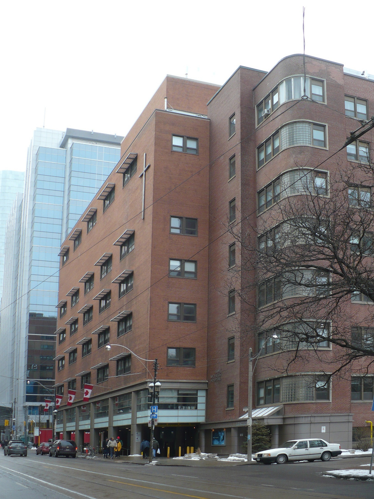 St. Michaels Hospital on Queen Street East, Torono